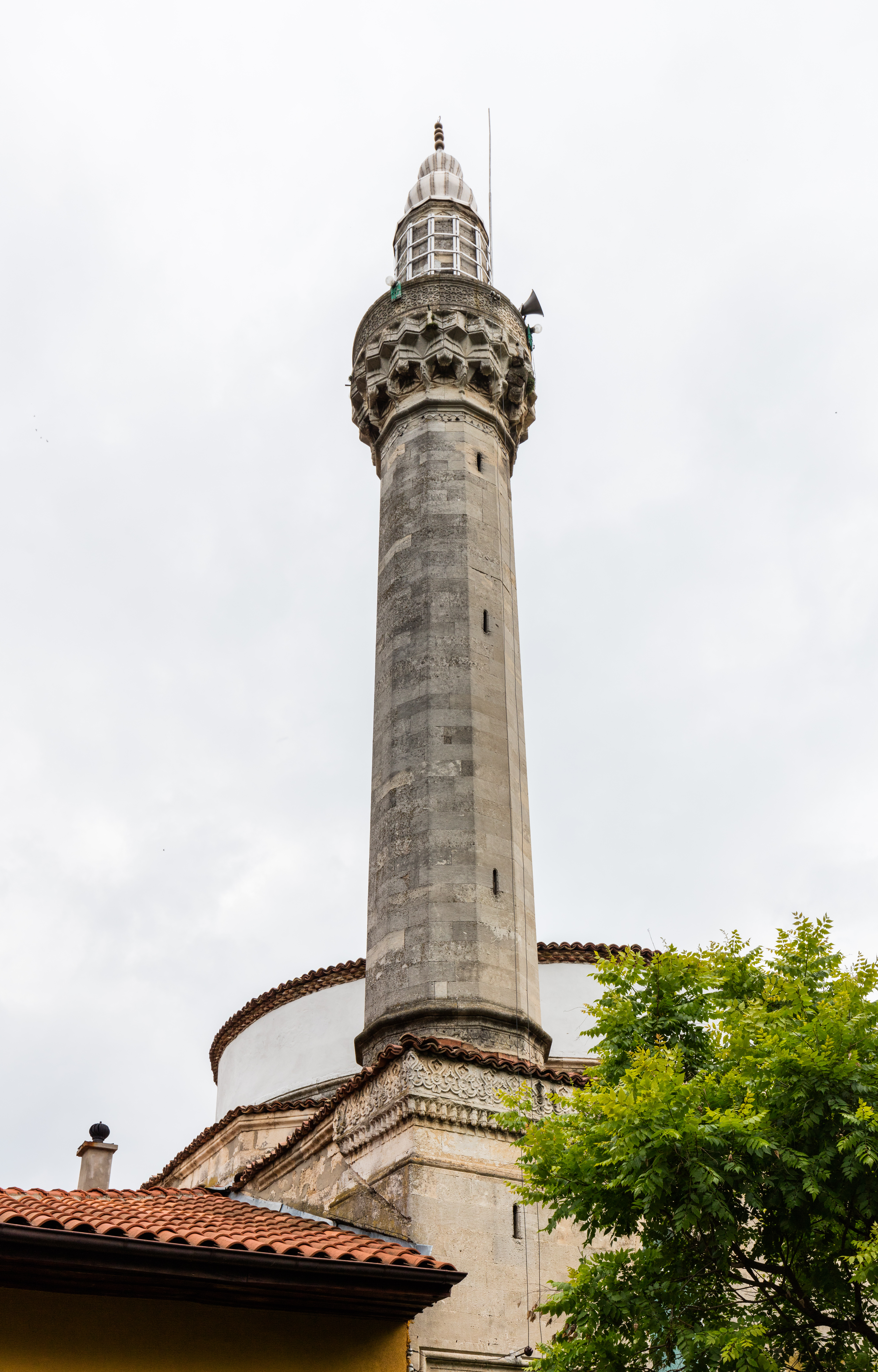 Ahmet Bey Mosque, Razgrad, Bulgaria